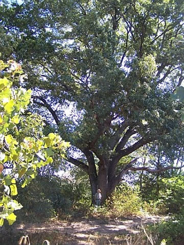 Caddo National Grassland is located in the Oak Woodland Prairie Region. Approximately 60 to 70 percent of the Grassland is wooded. Red oaks are common throughout the area, but this tree is the largest known on the District.